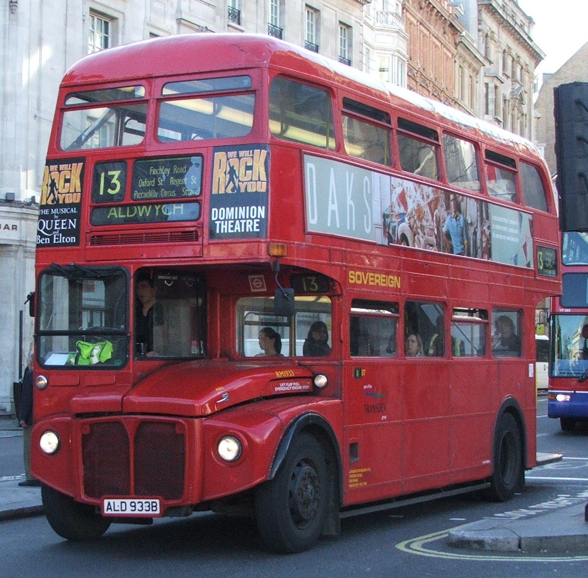 Sovereign Bus & Coach Routemaster bus RM1933 (reg. ALD 933B) operating London Buses route 13 to Aldwych. It's not far from the terminus, heading south east down Cockspur Street in the City of Westminster, about to cross Trafalgar Square.